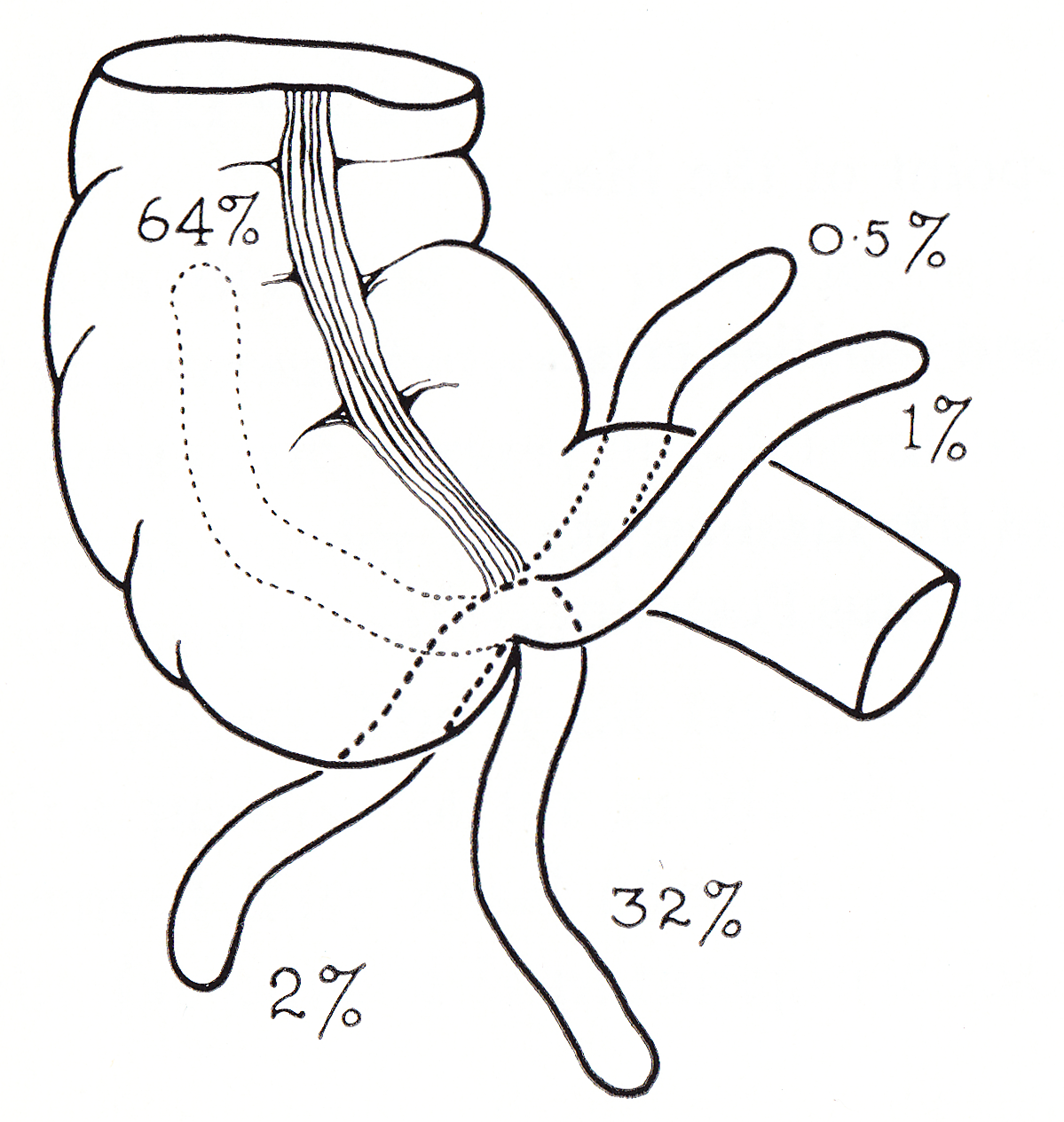 An anatomical illustration from An atlas of anatomy/by regions 1962